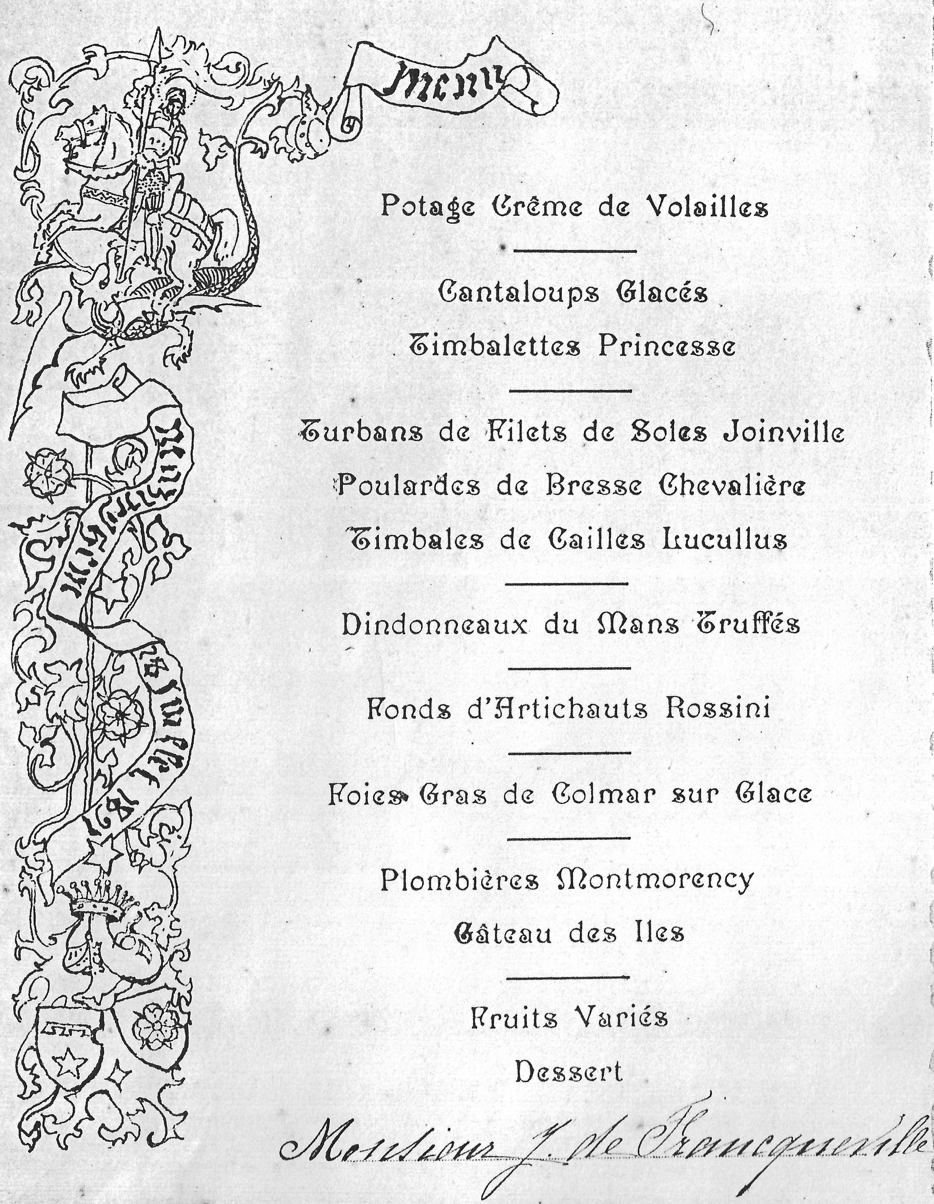 Menu 4 avec dessin de Jean de Francqueville